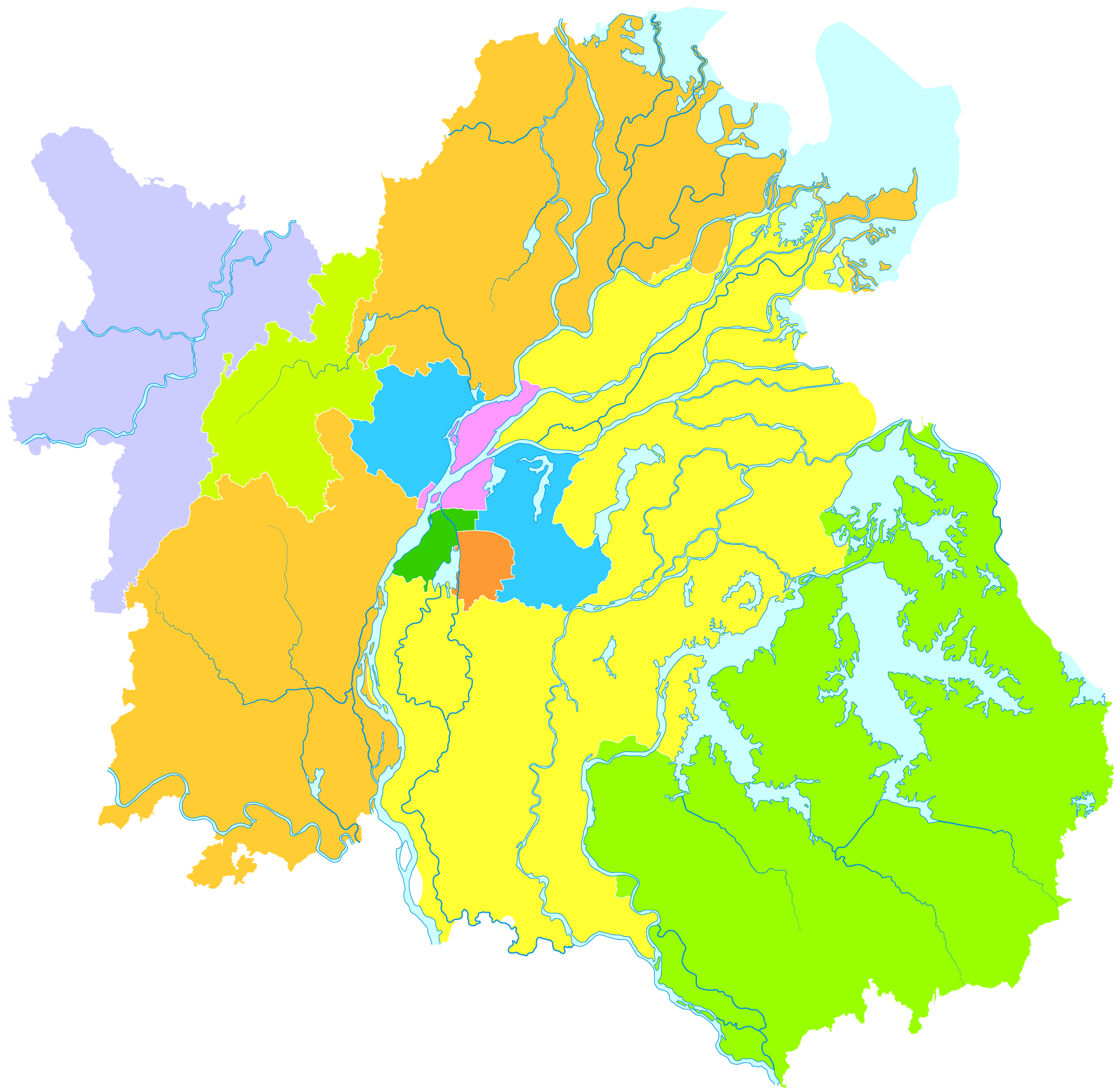 administrative divisions of Nanchang City, Jiangxi, China